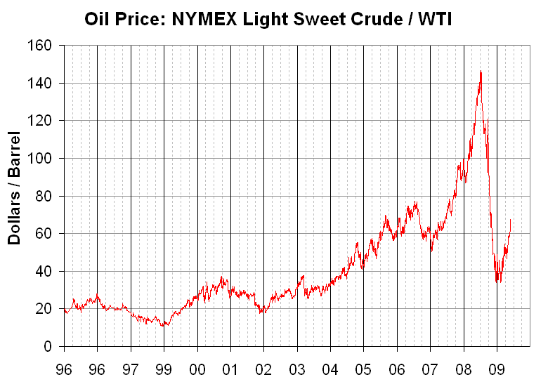 The graph from here: Completely redone from the ground up. Same source is used: Ten-day moving average of prices of NYMEX Light Sweet Crude, taken from data at the New Mexico Institute of Mining and Technology. Prices are nominal (not adjusted for inflation).